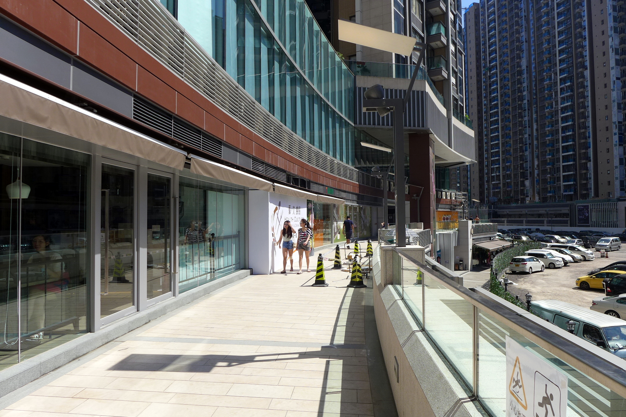 PopWalk II Outside access